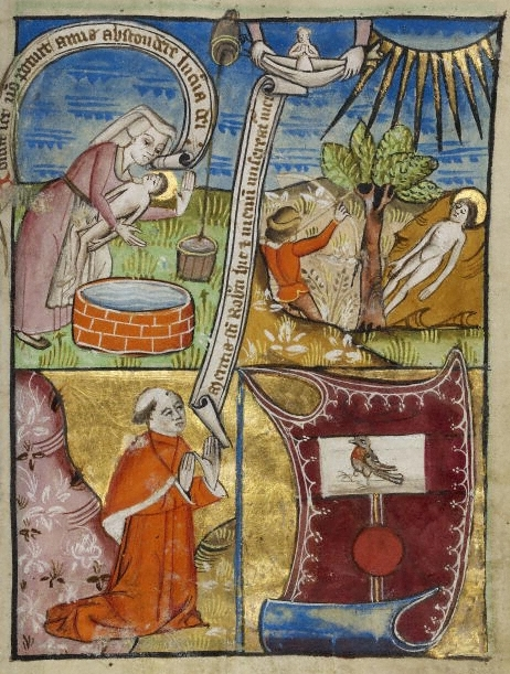 The martyrdom of St. Robert of Bury, supposed child saint said to have been killed by Jews in Bury St Edmunds, 1181.